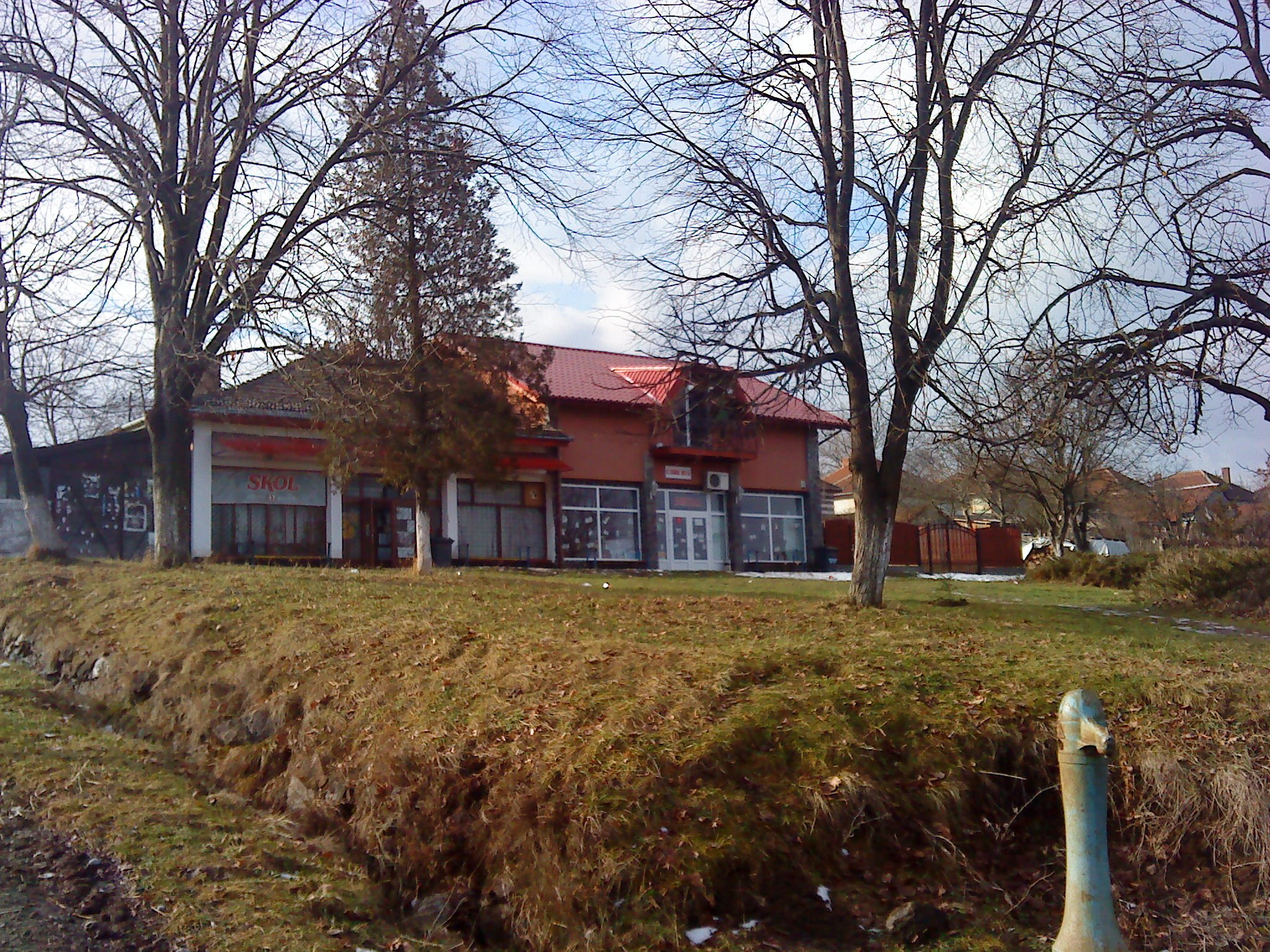 Cincis Cerna